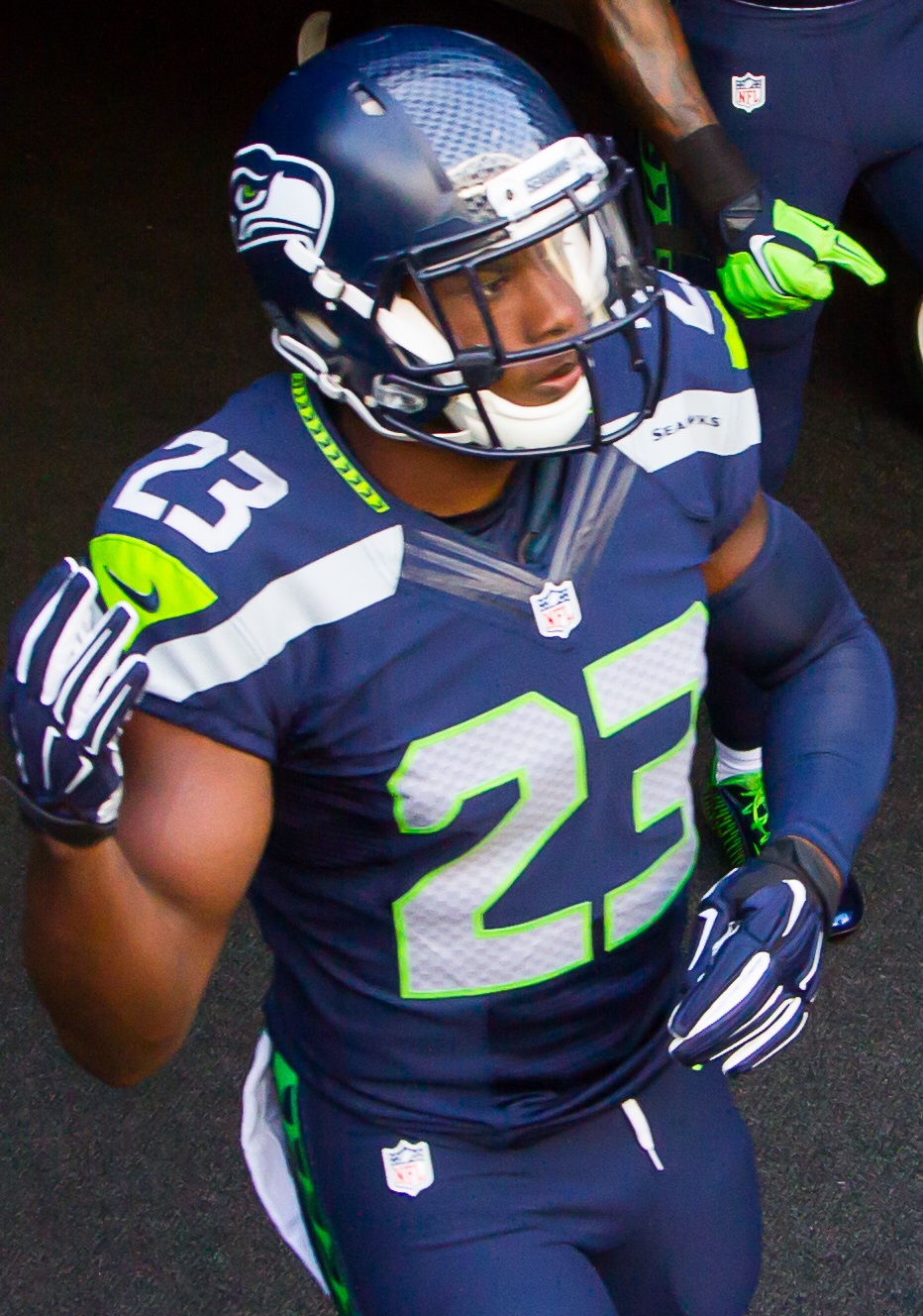 2015 preseason